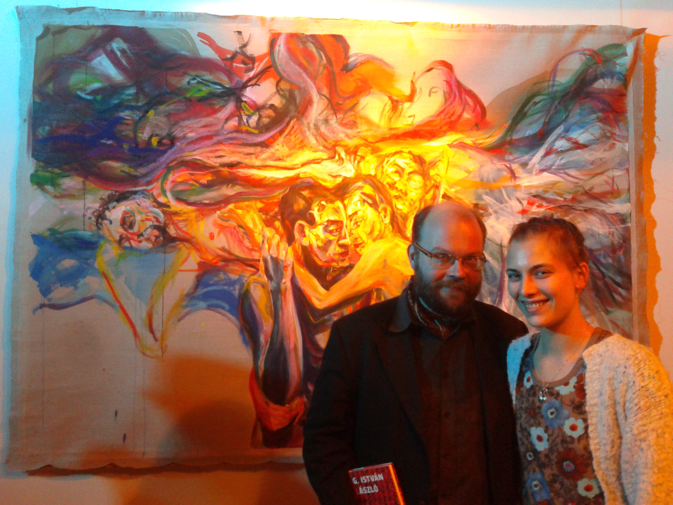 István László G. poet (GIL) and Zsófia Vári painter (RiZso) -- Költőállomás event - Hungarian Poetry Day 2015